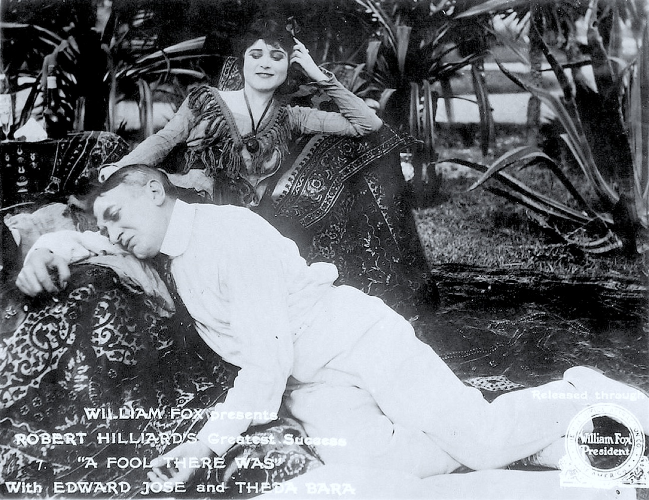 A Fool There Was is a 1915 silent film drama with Edward José and Theda Bara. This is a publicity image.